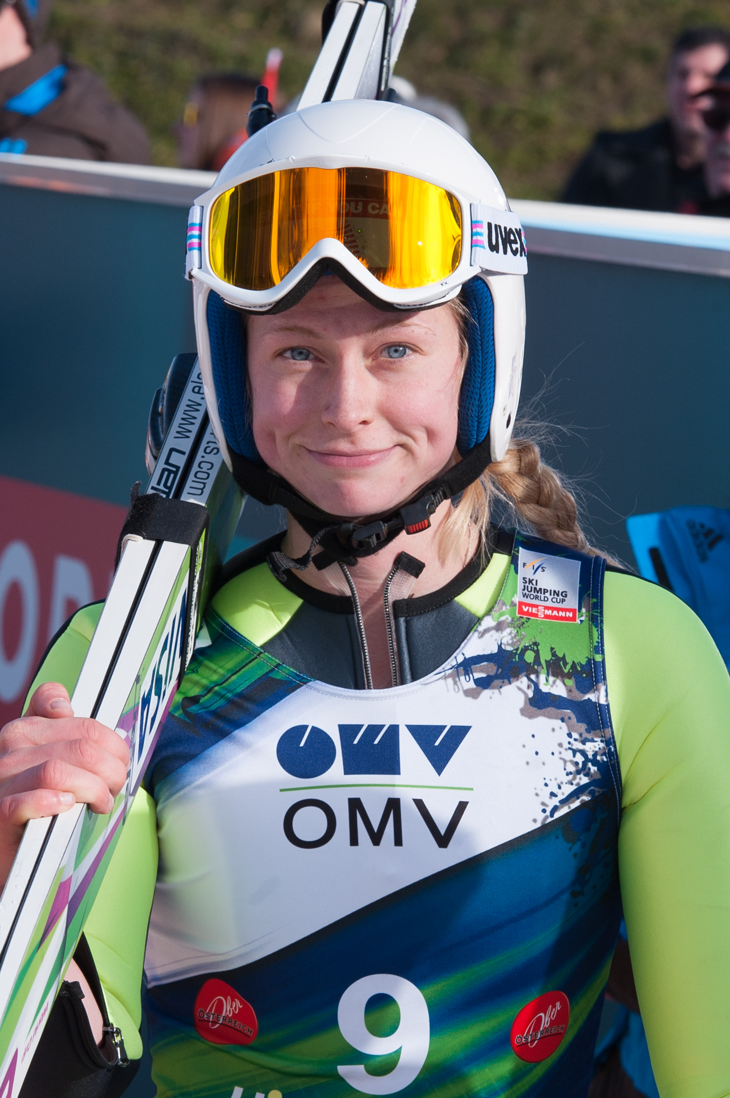 FIS Ski Jumping World Cup Hinzenbach Sun 1 Feb 2015